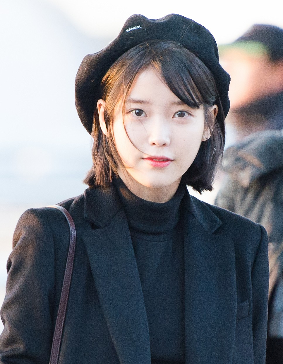 IU at Incheon airport, 6 January 2017